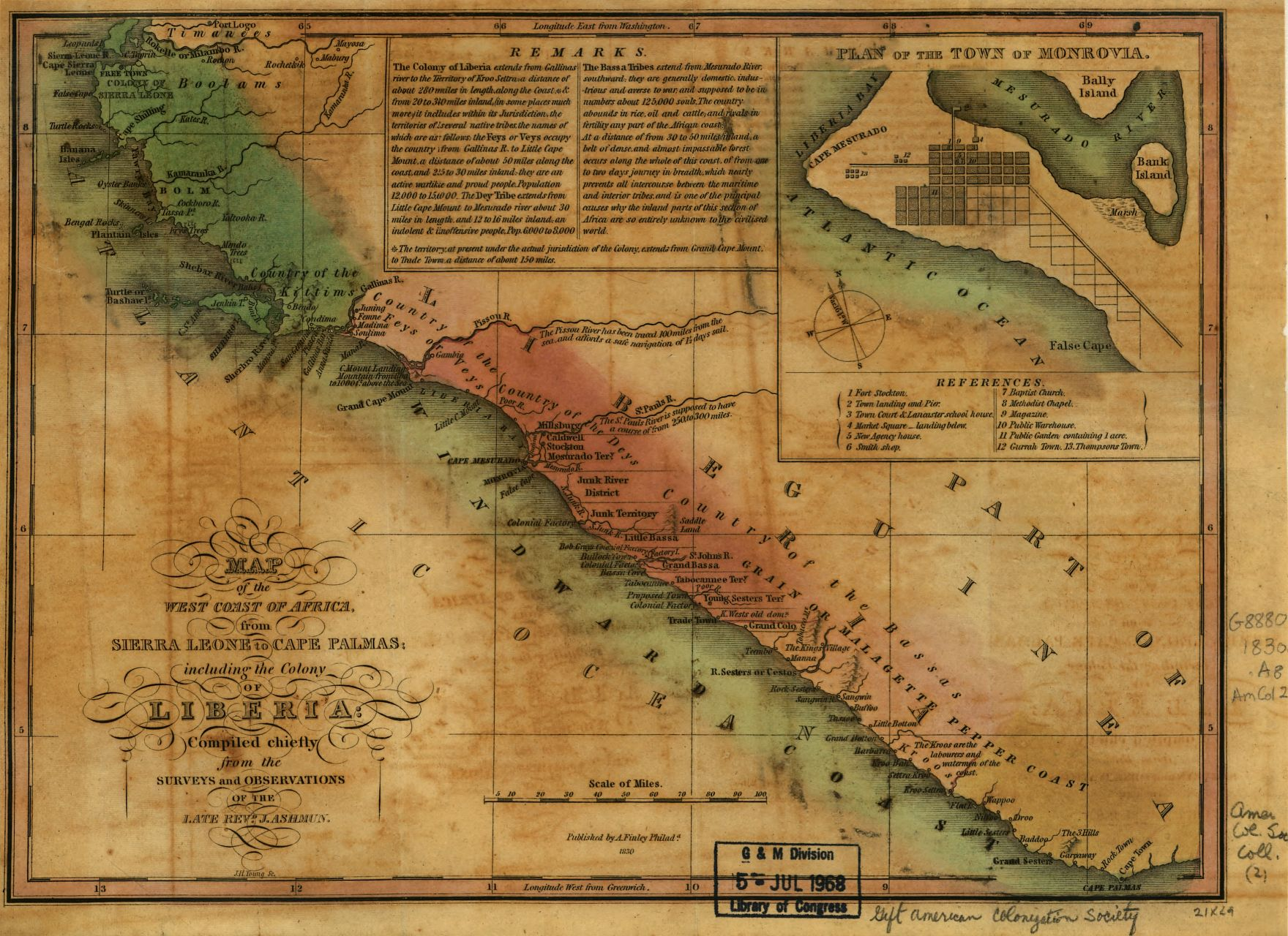 Liberia and the West African Coast circa 1830.